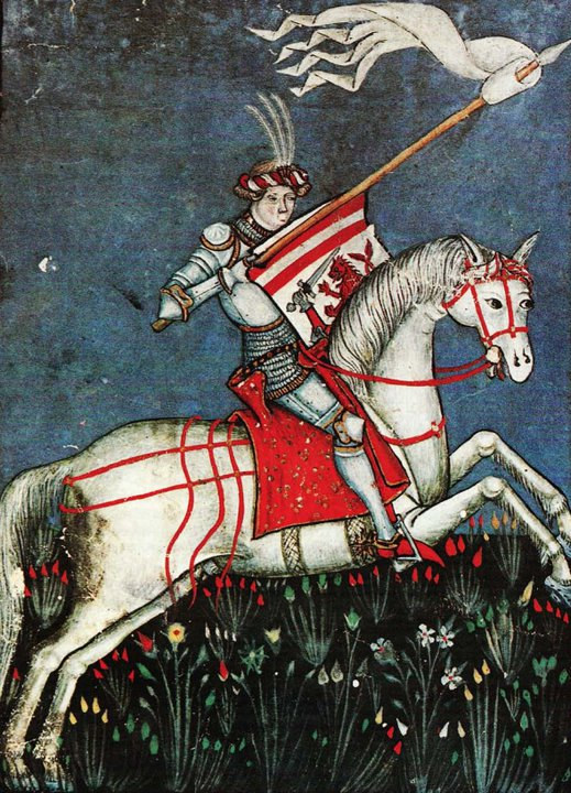 Image from Hrvoje's Missal